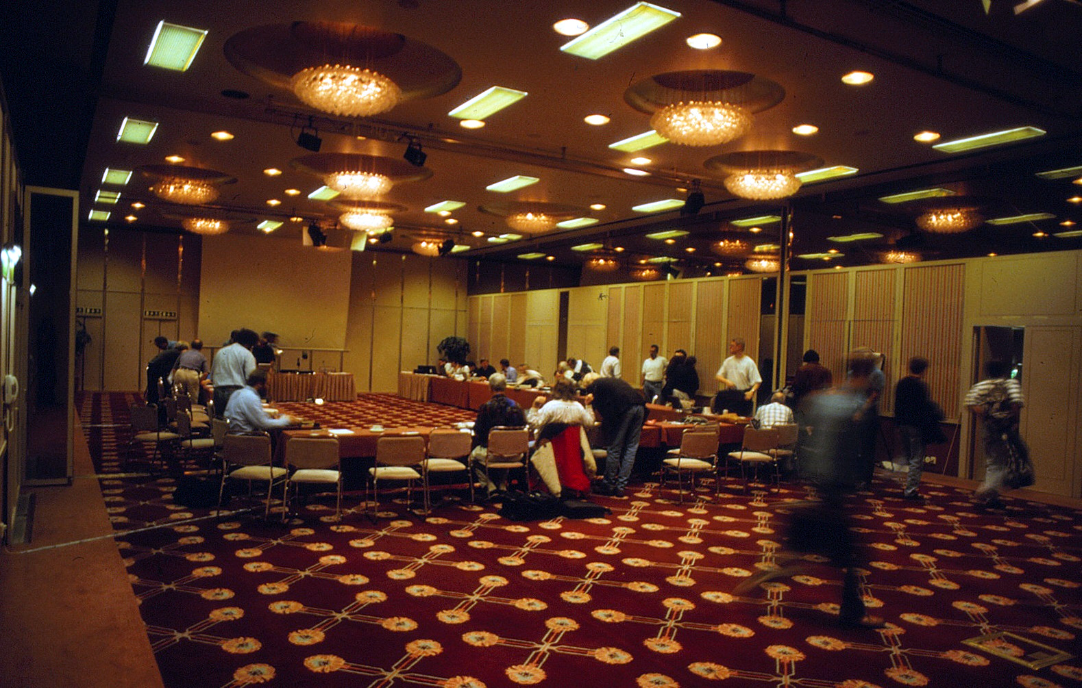 The ISO/IEC JTC1/SC22/WG21 C++ Standards Committee meeting during a break in a Wednesday general session held in the main ballroom of the Sheraton Hotel in Stockholm, Sweden, in July 1996.